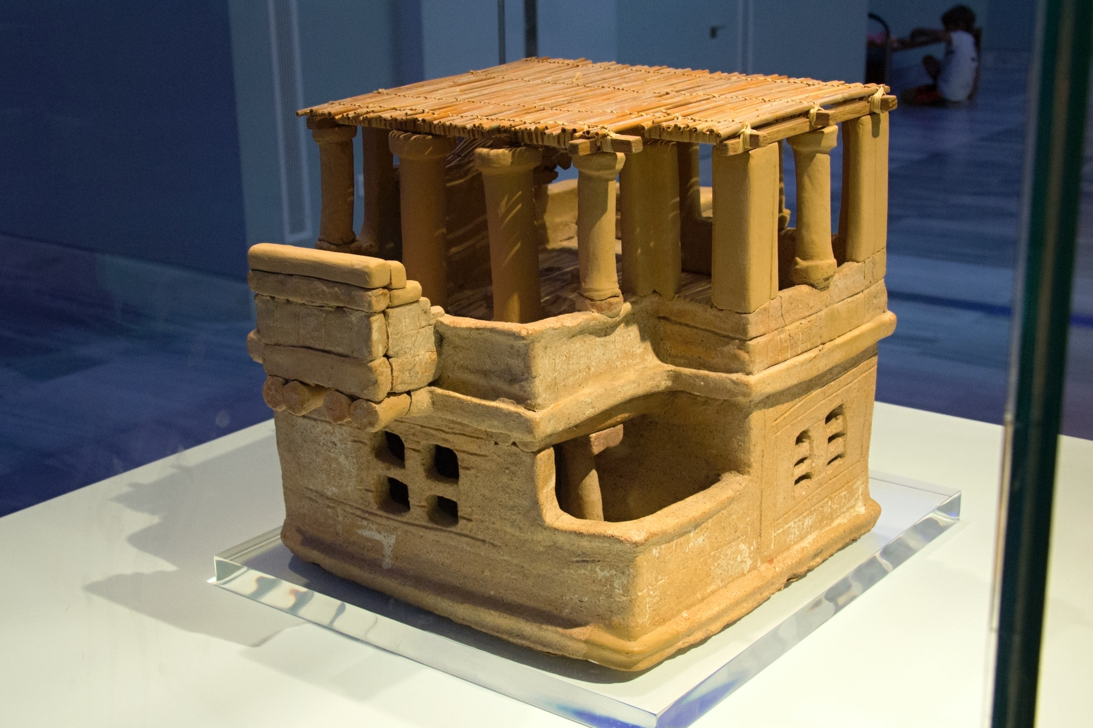 Clay house model from Archanes (the shelter is a modern reconstruction), ca 1700 BC. Archaeological Museum of Heraklion, no. 19410.